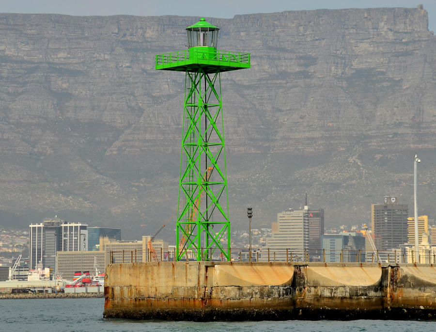 The Cape Town Breakwater Light is an active lighthouse located at the end of the main breakwater on the northwest side of Cape Town Harbour.